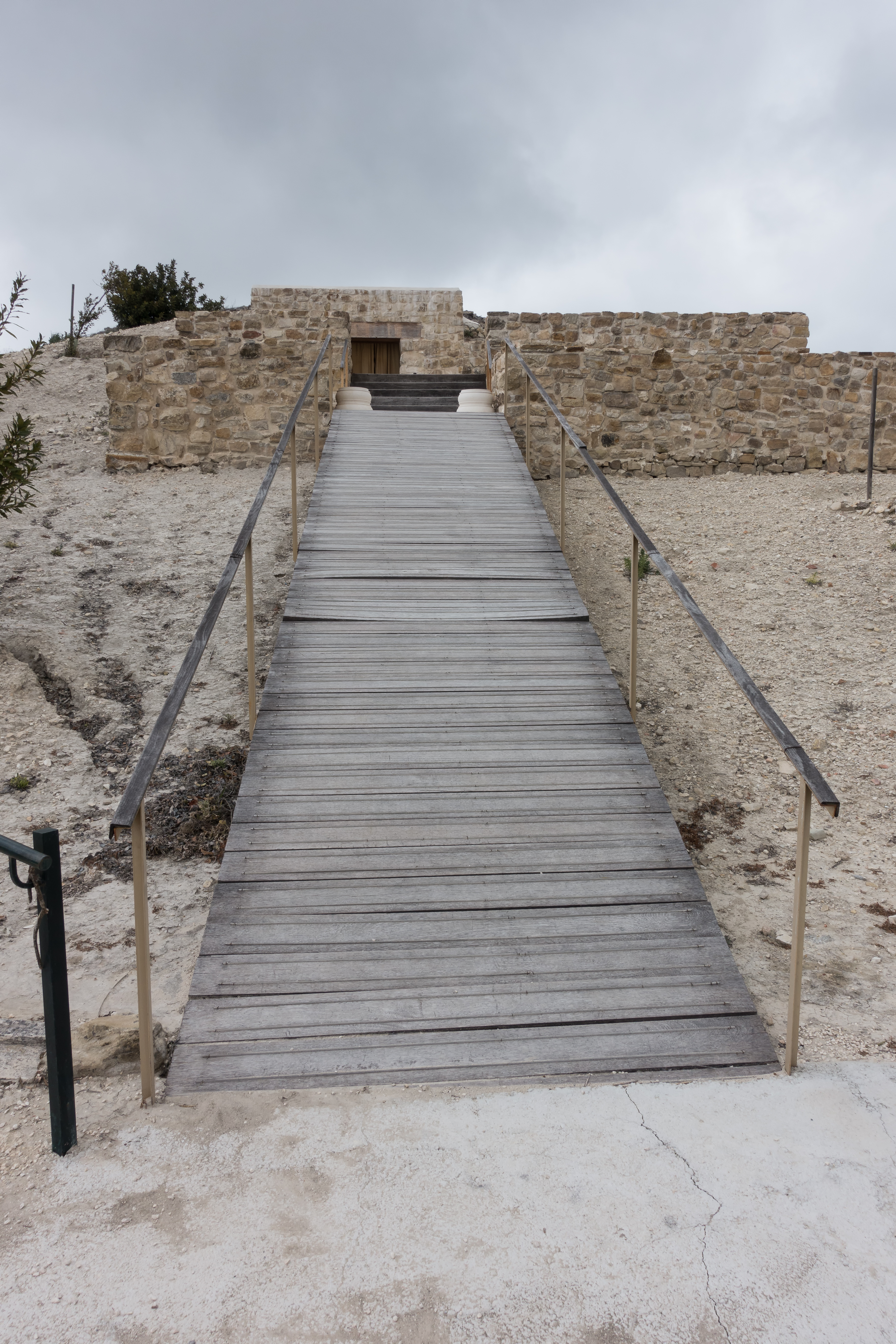 Torreparedones Archaeological Park in Baena, Cordoba, Spain. The shrine.